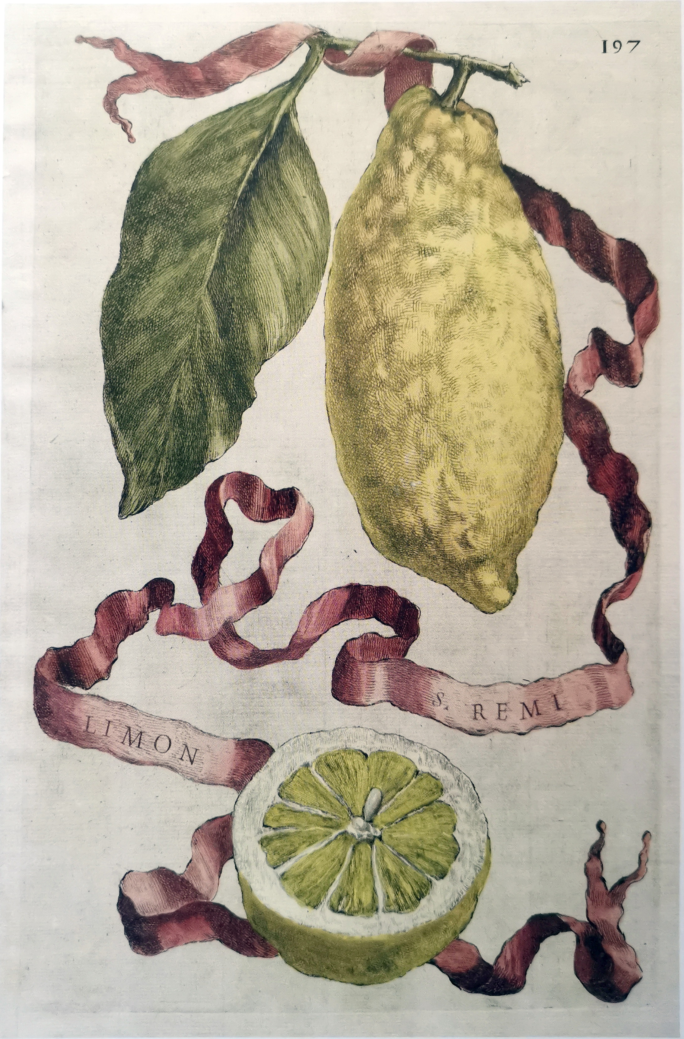 Plate from 'Hesperides' - painting by Vincenzo Leonardi, engraving by Cornelis Bloemaert